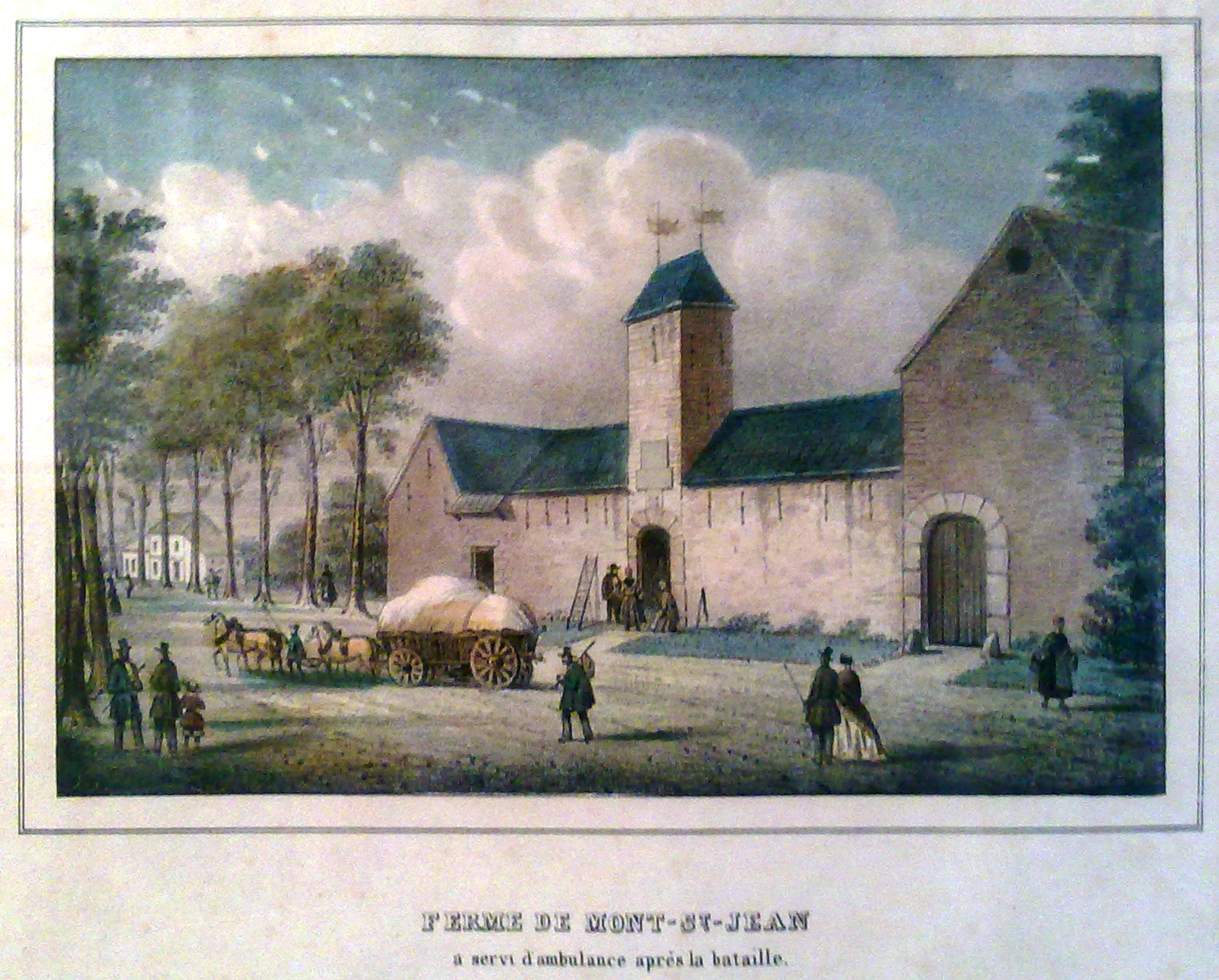 The Mont-Saint-Jean farm in the XIX th century. Note the position of the road on the West side of the farm, the stona plaque above the main portal (and the strange perspective as shown with the carriage). Original engraving on display at Napoleéon last HQ.